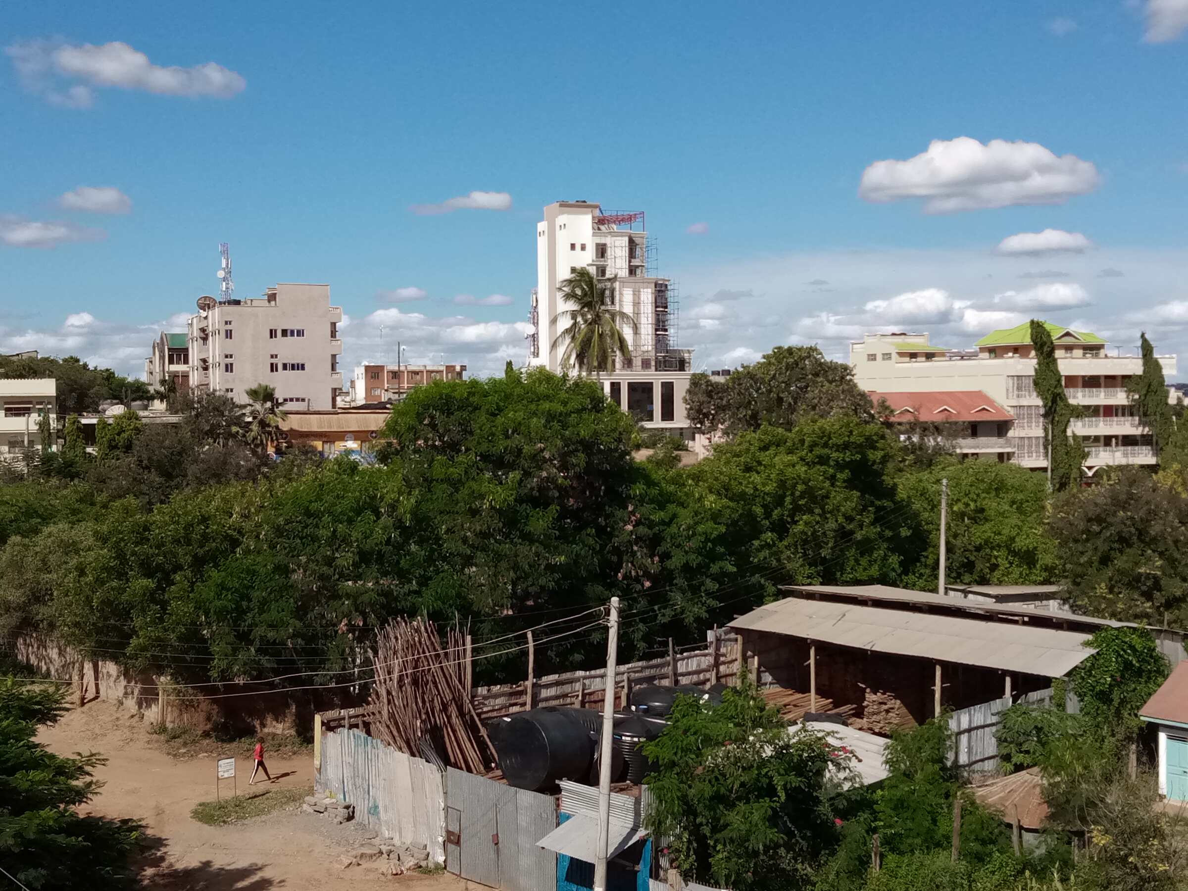 A view of the changing skyline of Voi town, Taita Taveta County, Kenya. The increase in commercial buildings shows increased investor confidence in the future of the town. Kiswahili: Picha inayoonyesha jumba za biashara mjini Voi katika jimbo la Taita Taveta nchini Kenya.